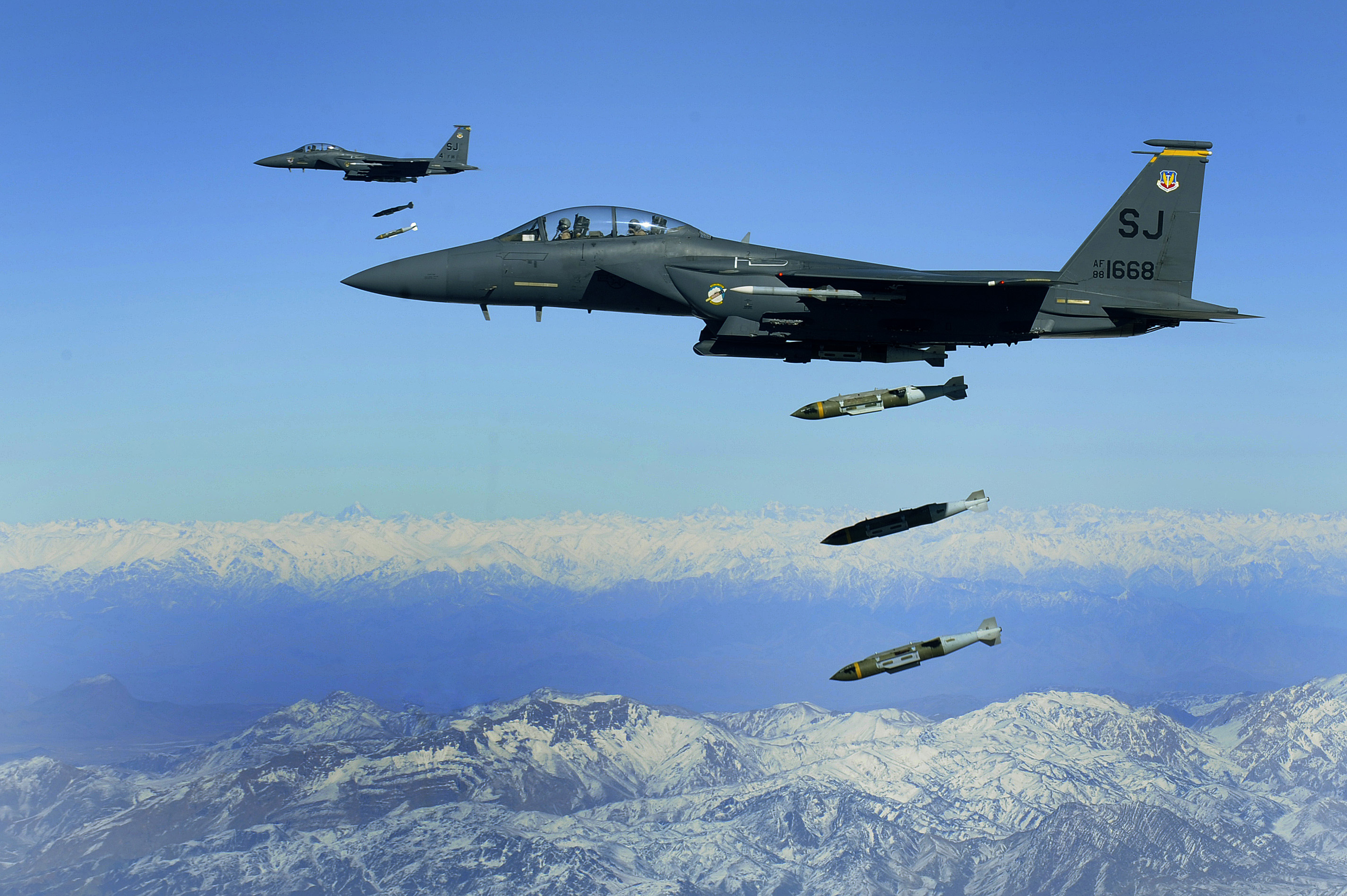 U.S. Air Force F-15E Strike Eagles, from the 335th Expeditionary Fighter Squadron, drop 2,000-pound Joint Direct Attack Munitions on a cave in eastern Afghanistan on Nov. 26, 2009.